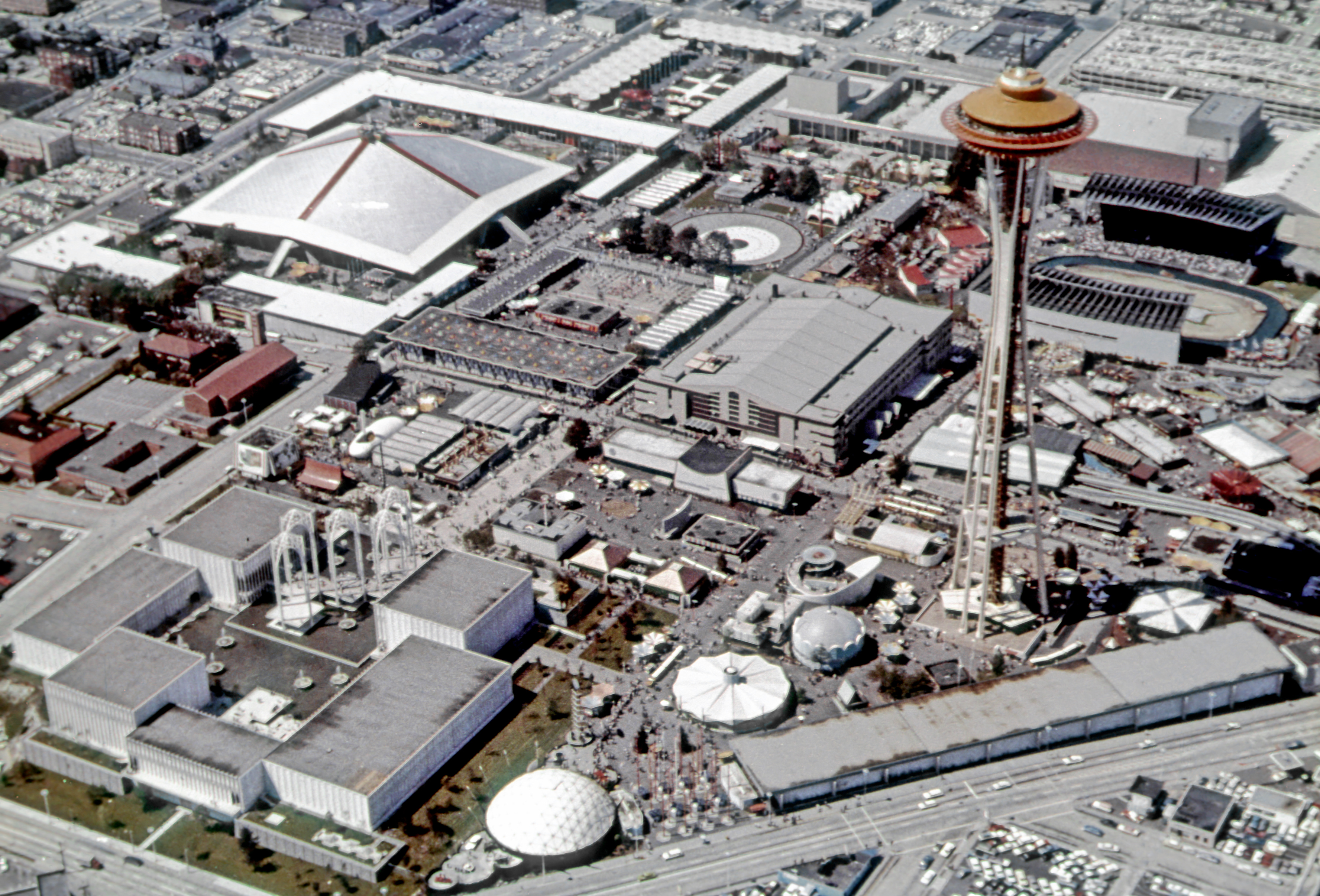 Aerial of Seattle World's Fair (Century 21 Exposition), 1962.